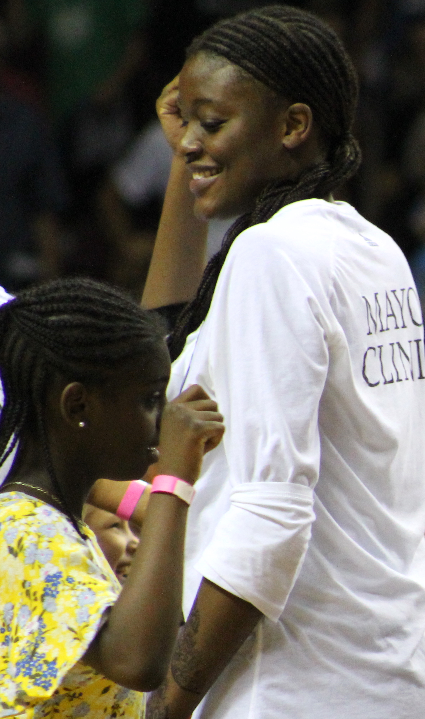 Temi Fagbenle dancing with a fan after a 2017 WNBA semifinals game